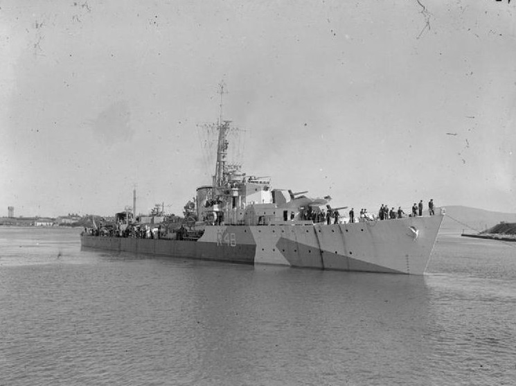 Photograph of British destroyer HMS Wrangler.